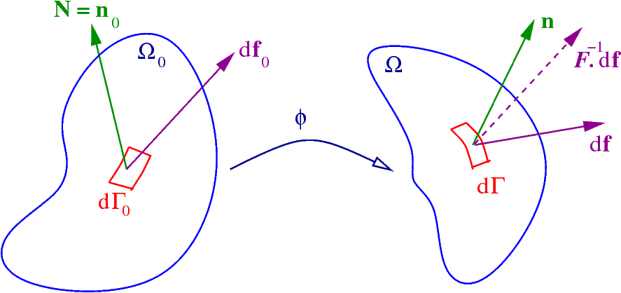 Quantities used to define stress measures